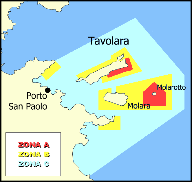 This is a map showing the protected area of Tavolara Island and Molara Island, off the coast of Sardinia, Italy.